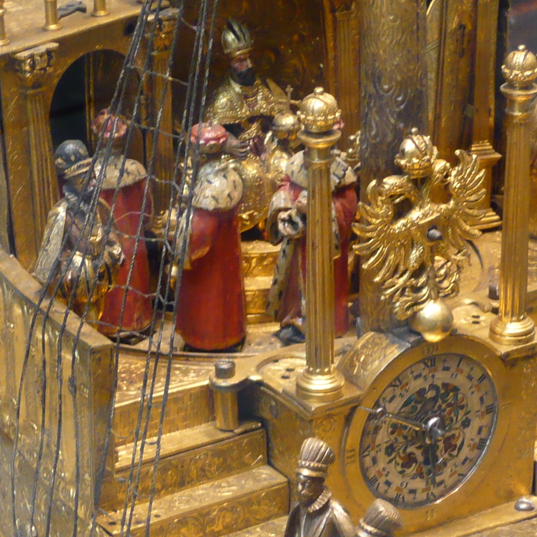 c. 1585. Mechanical medieval galleon intended to announce banquets at court. The entertainment began with music from a miniature organ in the hull, drumming and a procession. Afterward the ship would travel across the table. When it stopped the front cannon would fire. The figure on the throne is the Holy Roman Emperor. A procession of seven Electors (princes) pass before him during the music, preceded by three heralds. At the base of the main mast a small clock shows the time. Sailors in the crow's nest use hammers to strike hours and quarters. By Hans Schlottheim, Augsburg, Germany. [the licence on this image allows for commercial use. For such uses, however, permission from the British Museum would also be required - See the talk page of Hoxne Hoard on Wikipedia!]